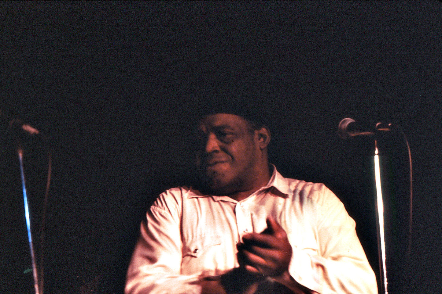 Willie Dixon in 1979 in Cary, Illinois at Harry Hopes